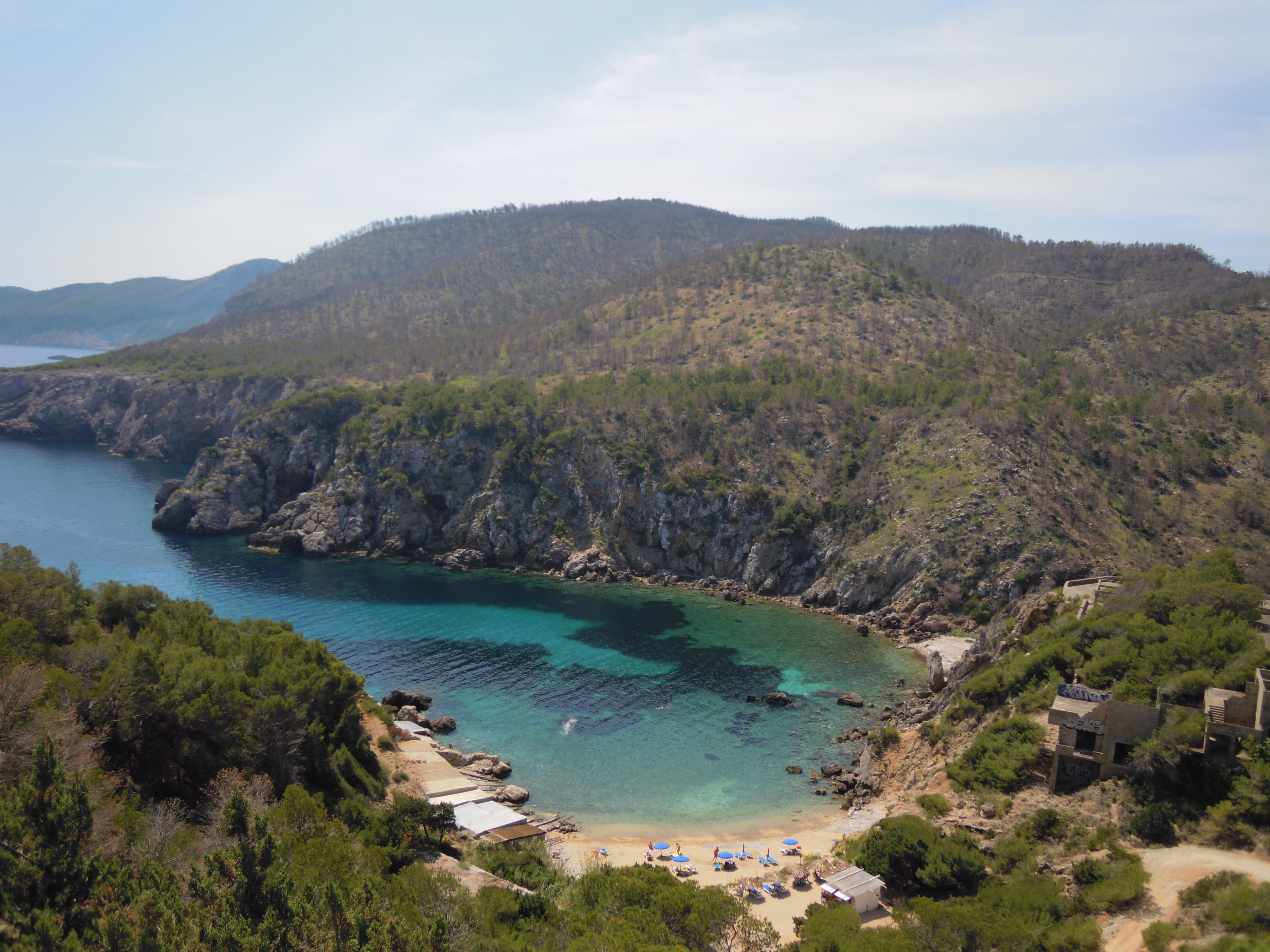 Photograph of the cove at Cala D'en Serra, Ibiza, Spain